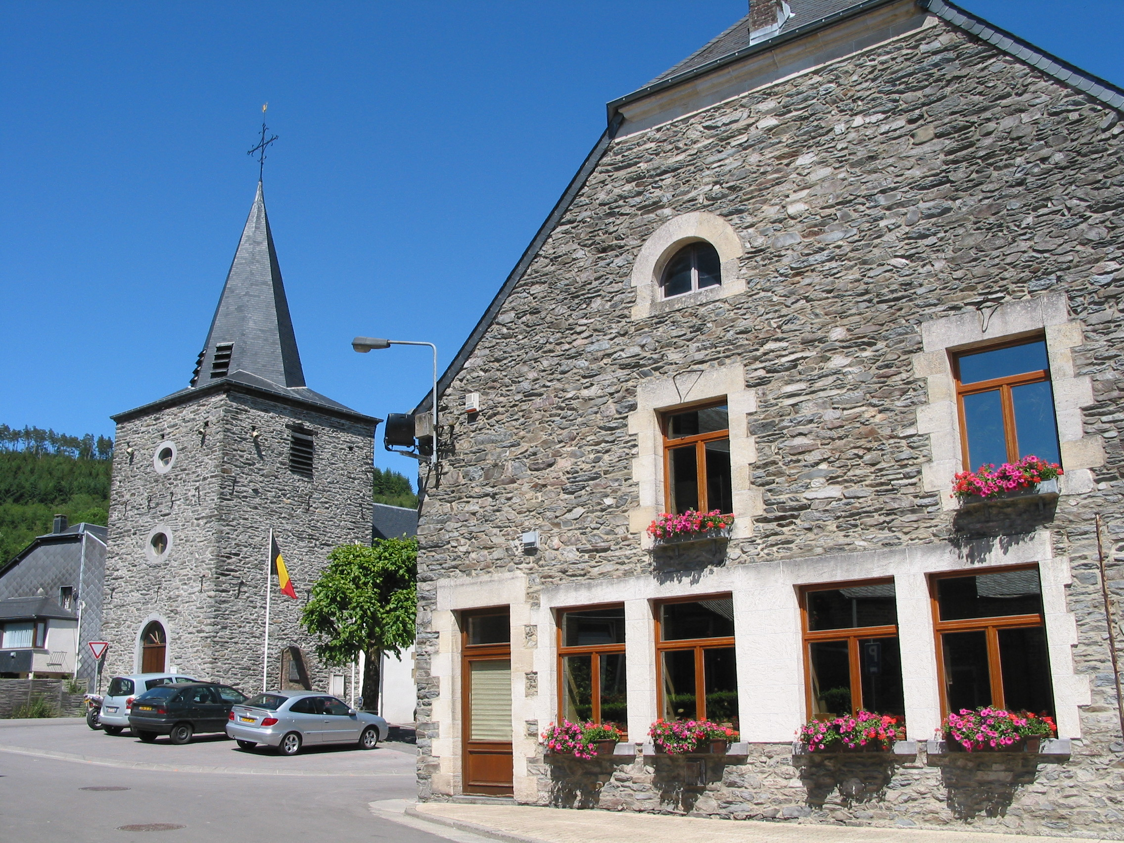 Vresse-sur-Semois (Belgium), The town hall and the St. Lambert church (1768).